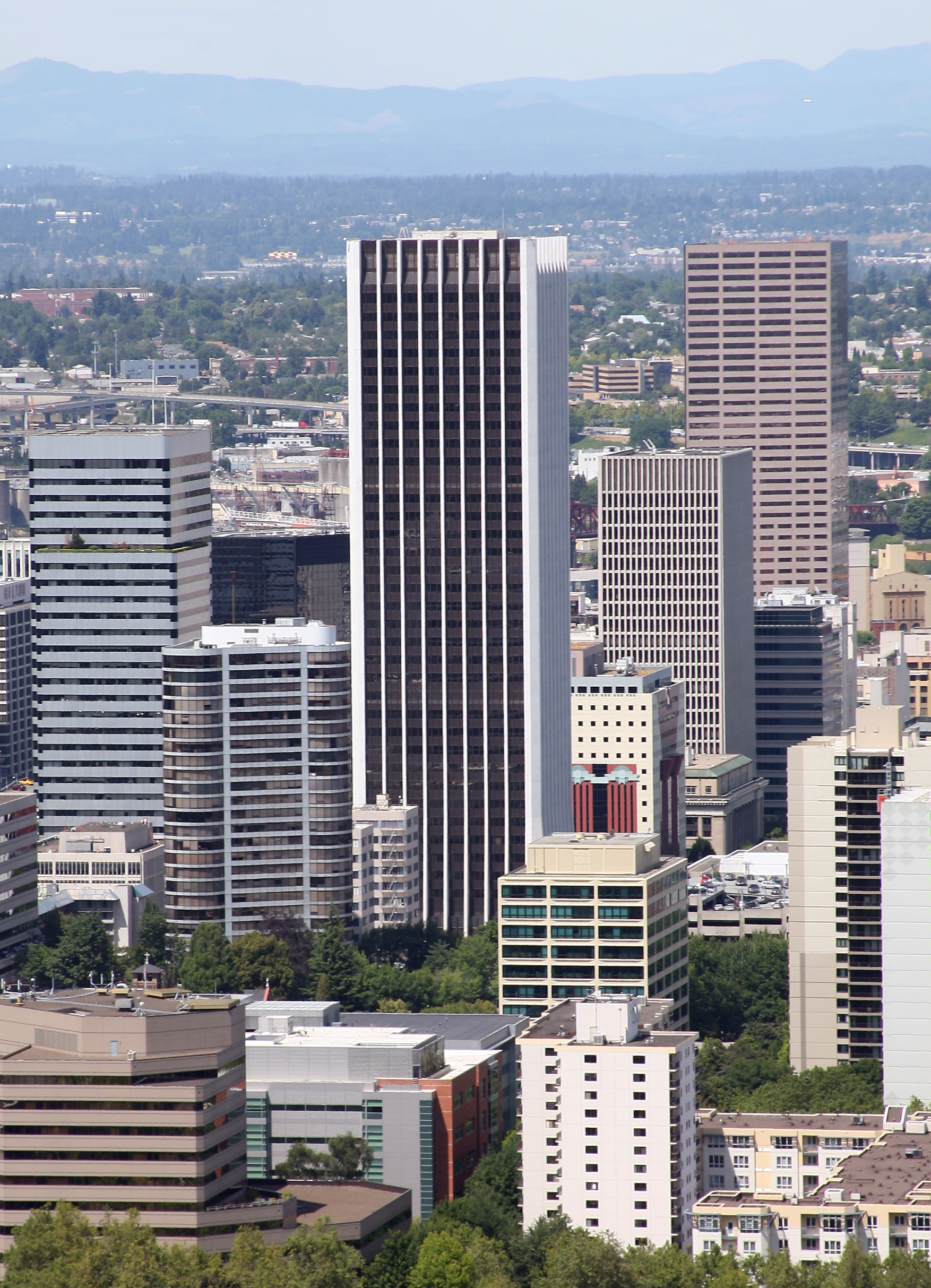 The Wells Fargo Center (white building in center) in Portland, Oregon. To the right is the US Bank Tower.